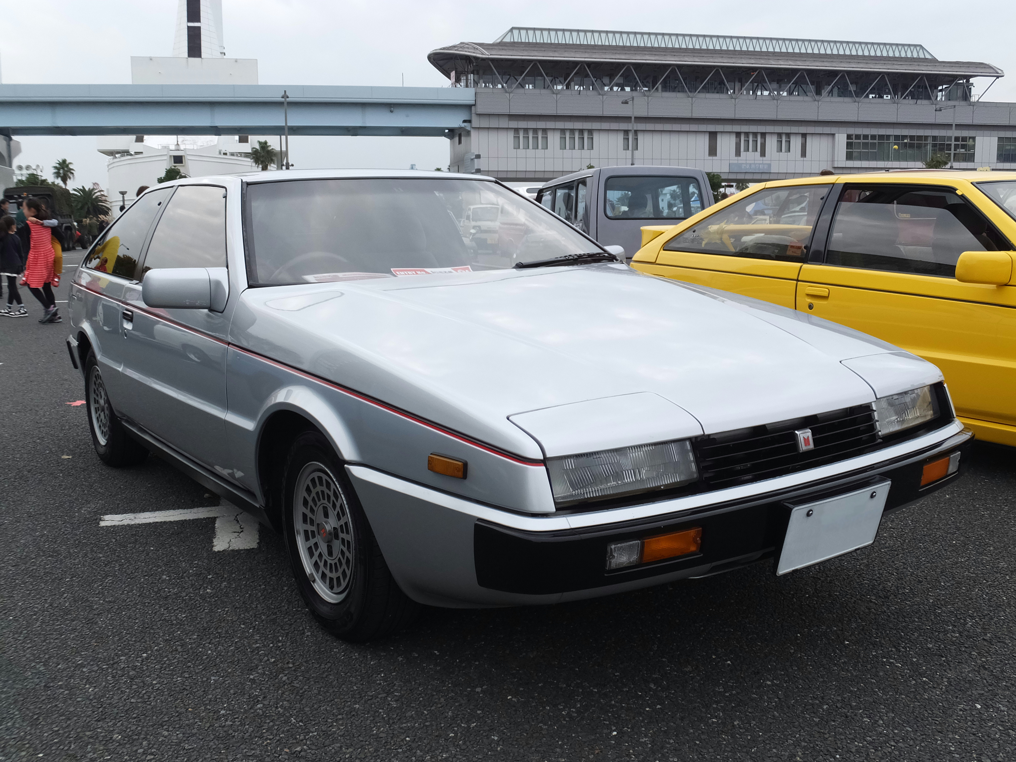 ISUZU, Piazza, Front Perspective View